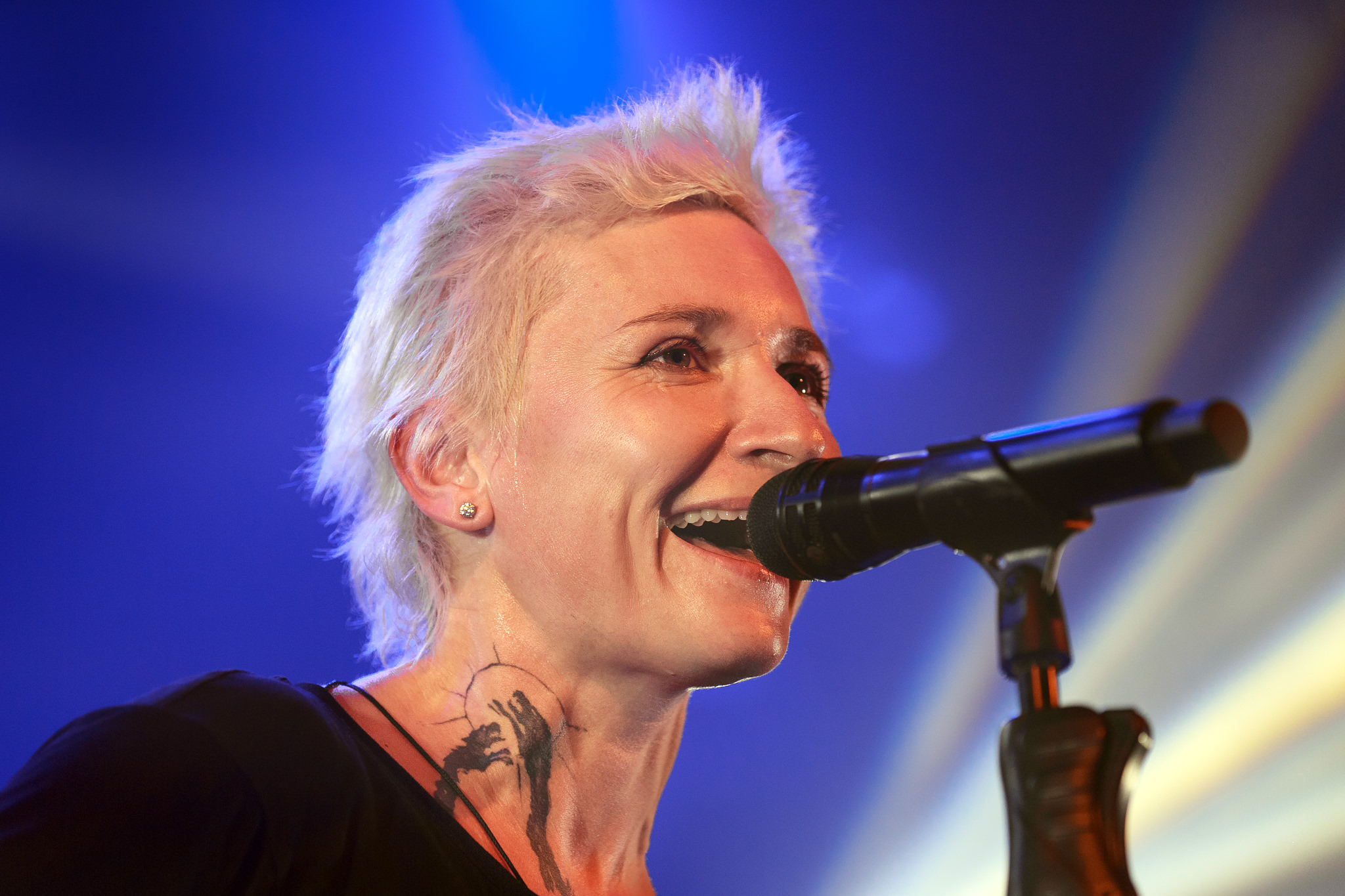 Diana Arbenina is a Russian singer, musician, poet, leader of the rock group Night Snipers. The Opera House, Toronto, Canada.